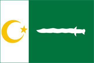 Flag of the Bangsa Moro Army